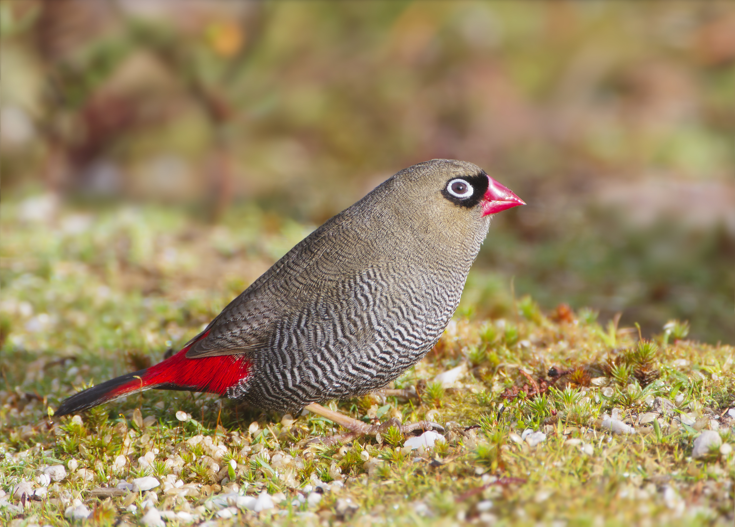 Beautiful Firetail (Stagonopleura bella) female, Melaleuca, Southwest Conservation Area, Tasmania, Australia